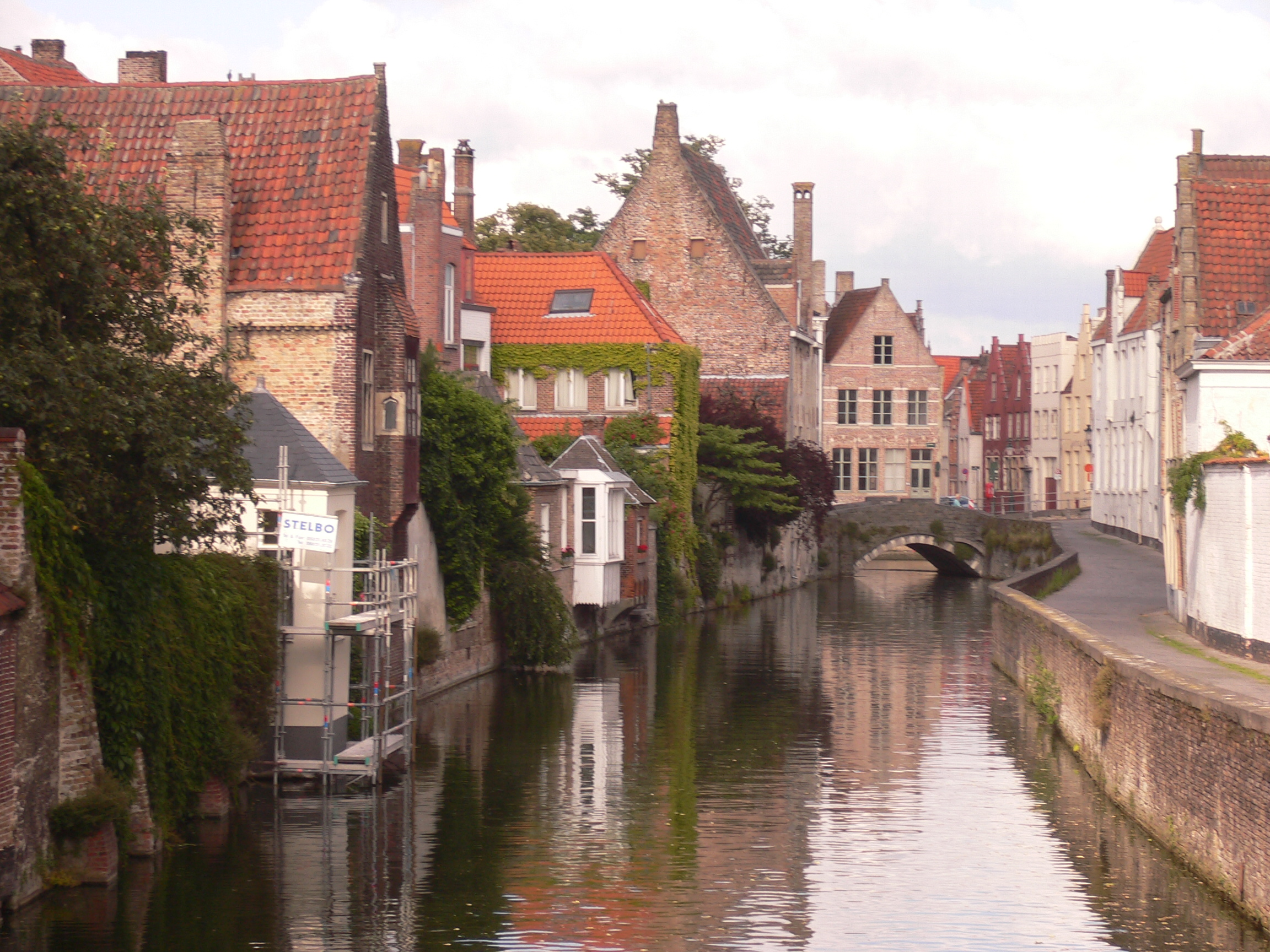 The town of Brugge